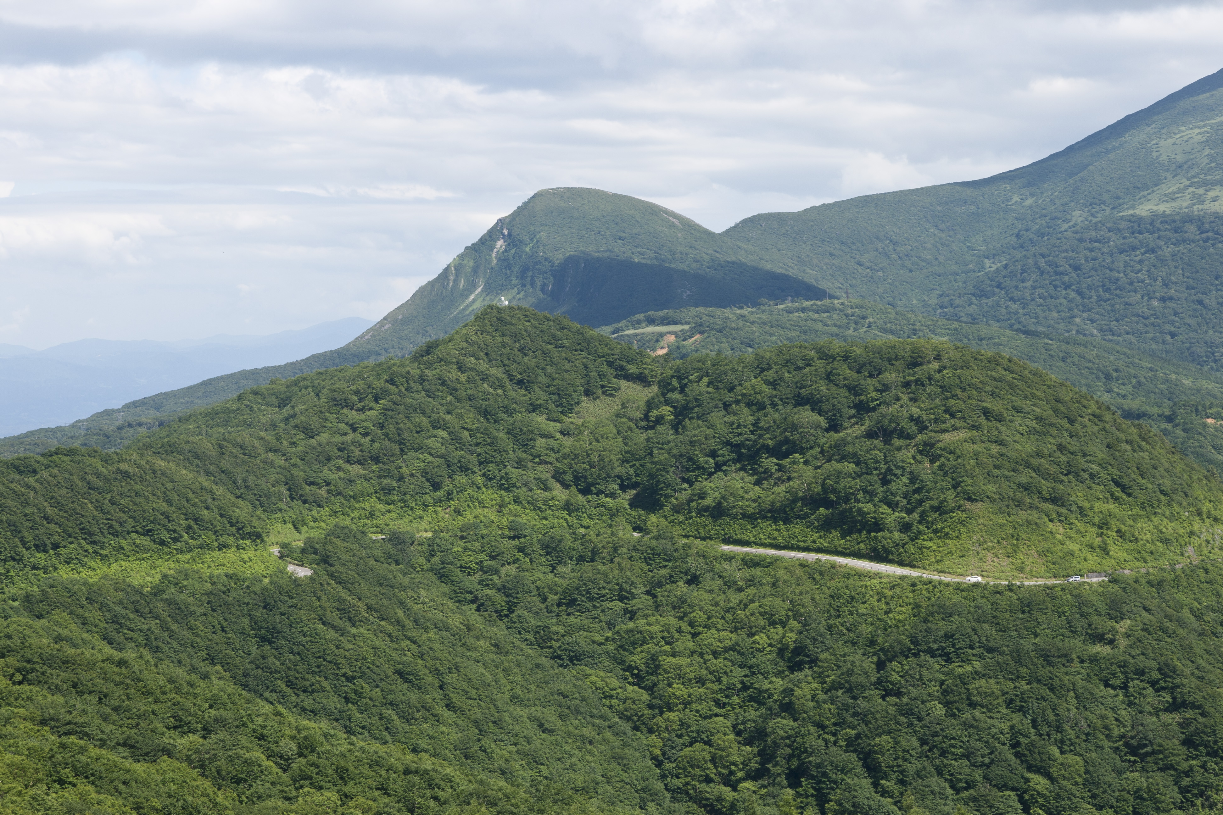 Mount Kimen as seen from Bandai-Azuma Roadway, Fukushima Pref., Japan